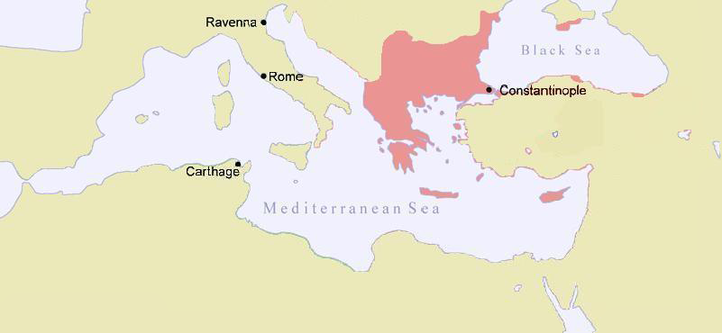 Map of the Byzantine Empire c.1095, after the Turkish invasion.